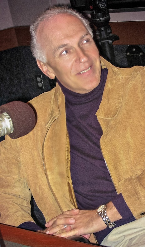 Spencer Proffer being interviewed.